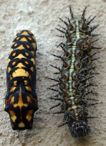 Acraea horta Linnaeus, 1764 - pupa and larva